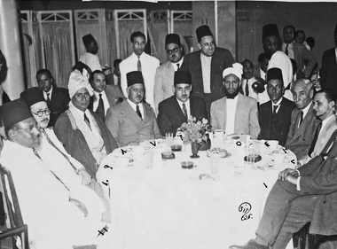 A meeting of nationalist revolutionaries from the Muslim world. at a reception in Continental Hotel in Cairo. From left to right: Ismail al-Azhari of Sudan, Ambassador Mohamed Rashidi of Indonesia, Abdullah al-Jaafari of Yemen, General Saleh Harb Pasha of Egypt, Ahmad Hussein of Egypt, Al-Fodayyel al-Wartalani of Algeria, Sadeq al-Mujaheddi of Afghanistan, Mohamed Ali Eltaher of Palestine, Aziz Ali al-Masri of Egypt and Allal al-Fassi of Morocco.